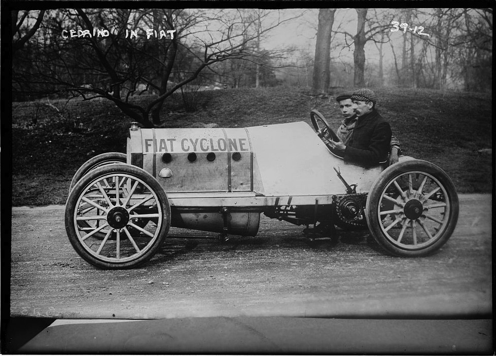 Briarcliff Auto Race, Emanuele Cedrino in Fiat Cyclone